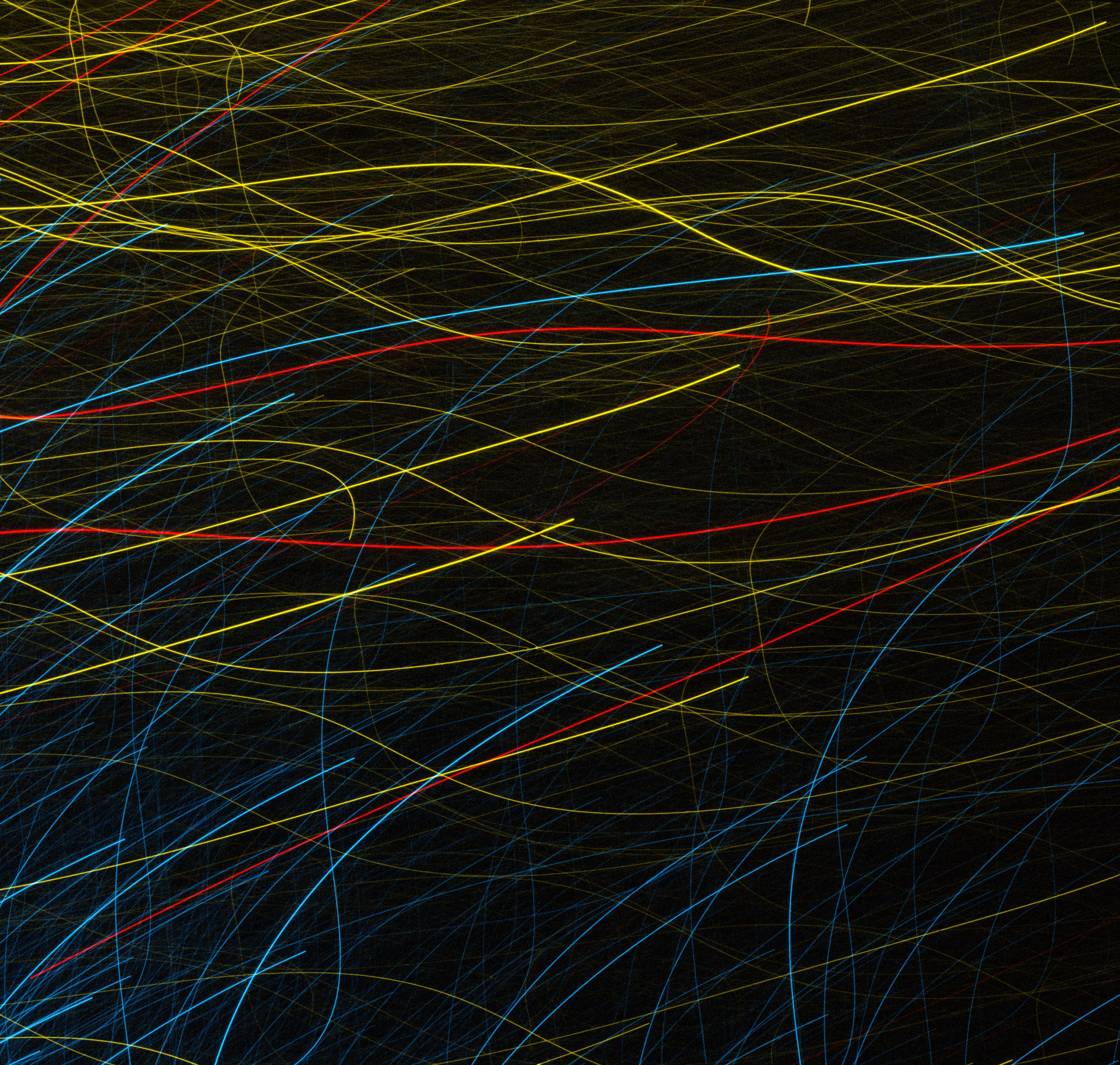 A piece of art? A time-lapse photo? A flickering light show? At first glance, this image looks nothing like the images that we are used to seeing from Hubble. The distinctive splashes of colour must surely be a piece of modern art, or an example of the photographic technique of "light painting". Or, could they be the trademark tracks of electrically charged particles in a bubble chamber? On a space theme, how about a time-lapse of the paths of orbiting satellites? The answer? None of the above. In fact, this is a genuine frame that Hubble relayed back from an observing session. Hubble uses a Fine Guidance System (FGS) in order to maintain stability whilst performing observations. A set of gyroscopes measures the attitude of the telescope, which is then corrected by a set of reaction wheels. In order to compensate for gyroscopic drift, the FGS locks onto a fixed point in space, which is referred to as a guide star. It is suspected that in this case, Hubble had locked onto a bad guide star, potentially a double star or binary. This caused an error in the tracking system, resulting in this remarkable picture of brightly coloured stellar streaks. The prominent red streaks are from stars in the globular cluster NGC 288. It seems that even when Hubble makes a mistake, it can still kick-start our imagination. A version of this image was entered into the Hubble's Hidden Treasures image processing competition by contestant Judy Schmidt.